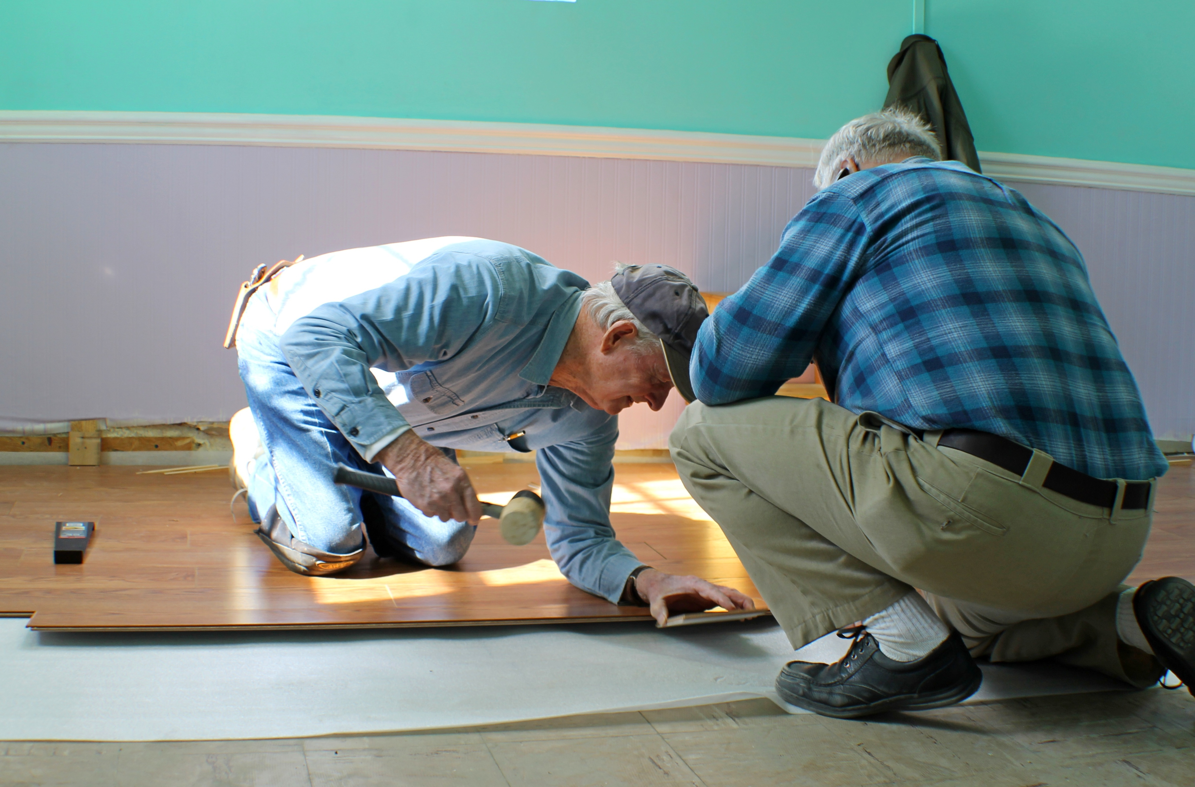 Laminate floor assembly requires fitting planks with tongue and groove connections